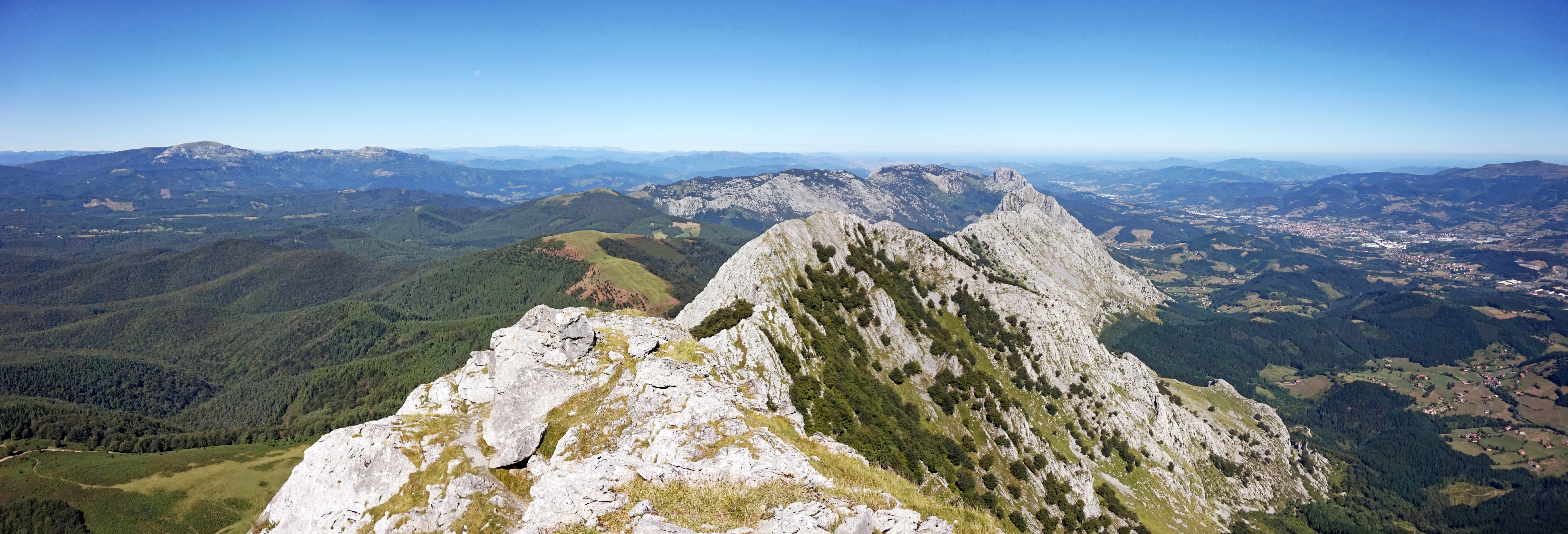 Mountain view from the mountain Anboto. Urkiola Natural Park in Basque Country, Spain.This photograph was taken with a Sony ILCE-5000